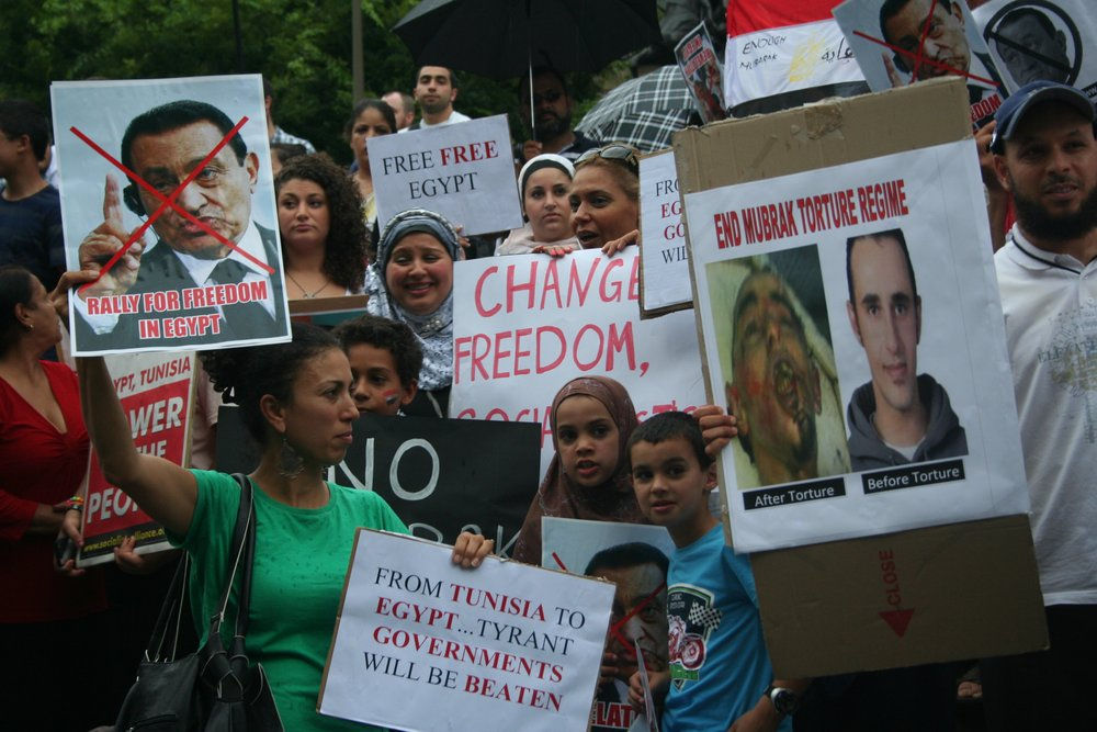 Egypt Uprising solidarity protest Melbourne 4 Feb 2011 While hundreds of thousands of pro-democracy protesters gathered in Tahrir Square in Cairo Egypt demanding Hosni Mubarak step down from office immediately, a smaller number, about 500 people, gathered outside the State Library in Melbourne where protesters heard from a number of speakers including Kevin Bracken, President of the Victorian Trades Hall Council, Greens MP Colleen Hartland, and speakers from the muslim and egyptian communities. A minutes silence was held to commemorate those killed in the violence initiated by the Mubarak regime thugs. The protest then marched down to Federation Square. The march become diluted as torrential rain scattered quite a few marchers to take refuge under the awnings on the footpath.